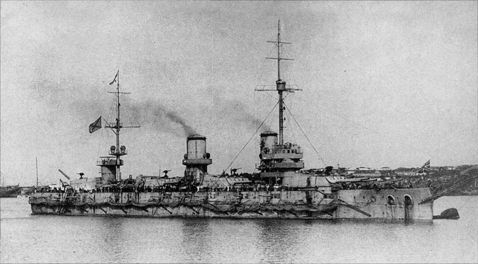 Battleship Imperatritsa Mariya returned in Sevastopol.